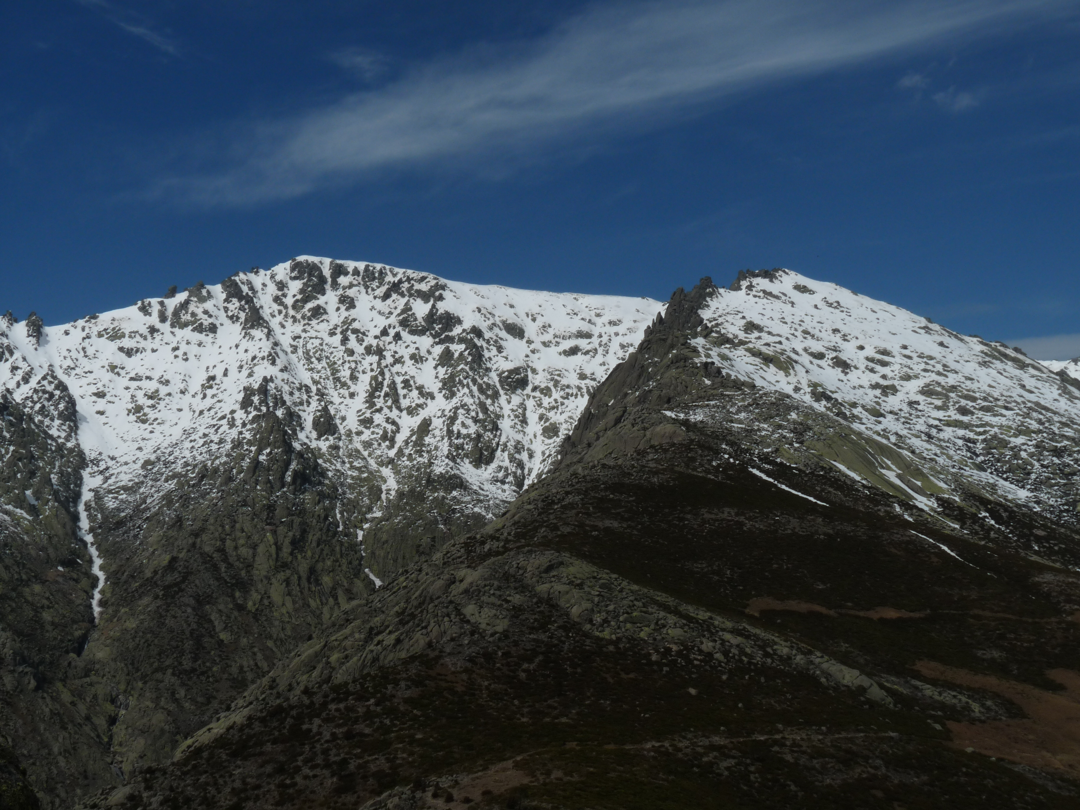 Image of La Mira and Espaldar de los Galayos from Cabeza del Covacho. Sierra de Gredos, Spain.